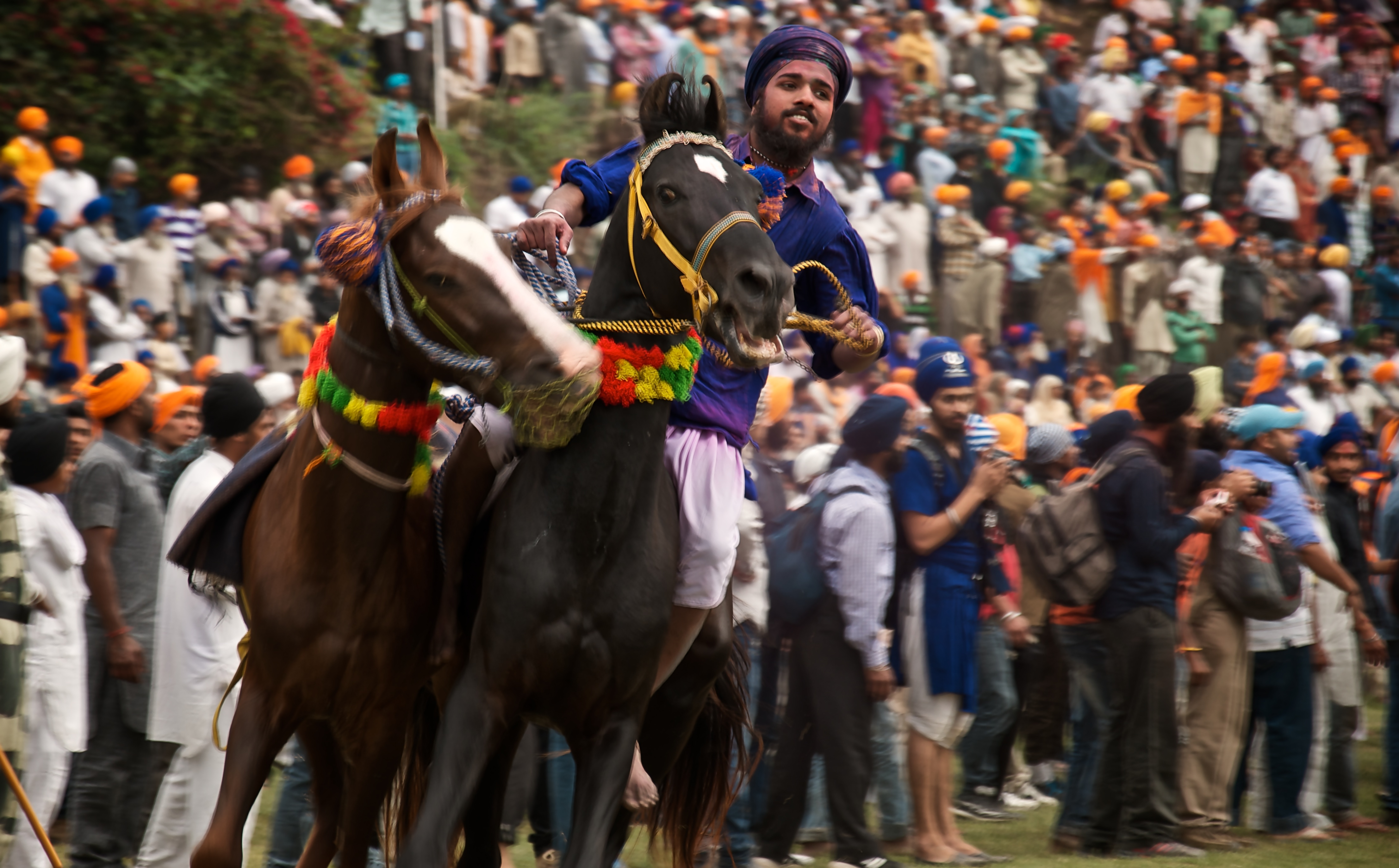 Sikhs gather in large numbers at the pilgrimage site of Anandpur Sahib for Hola Mohalla. Martial arts are at display. They also play with Holi colors, as is visible on the horse riders collar and face.